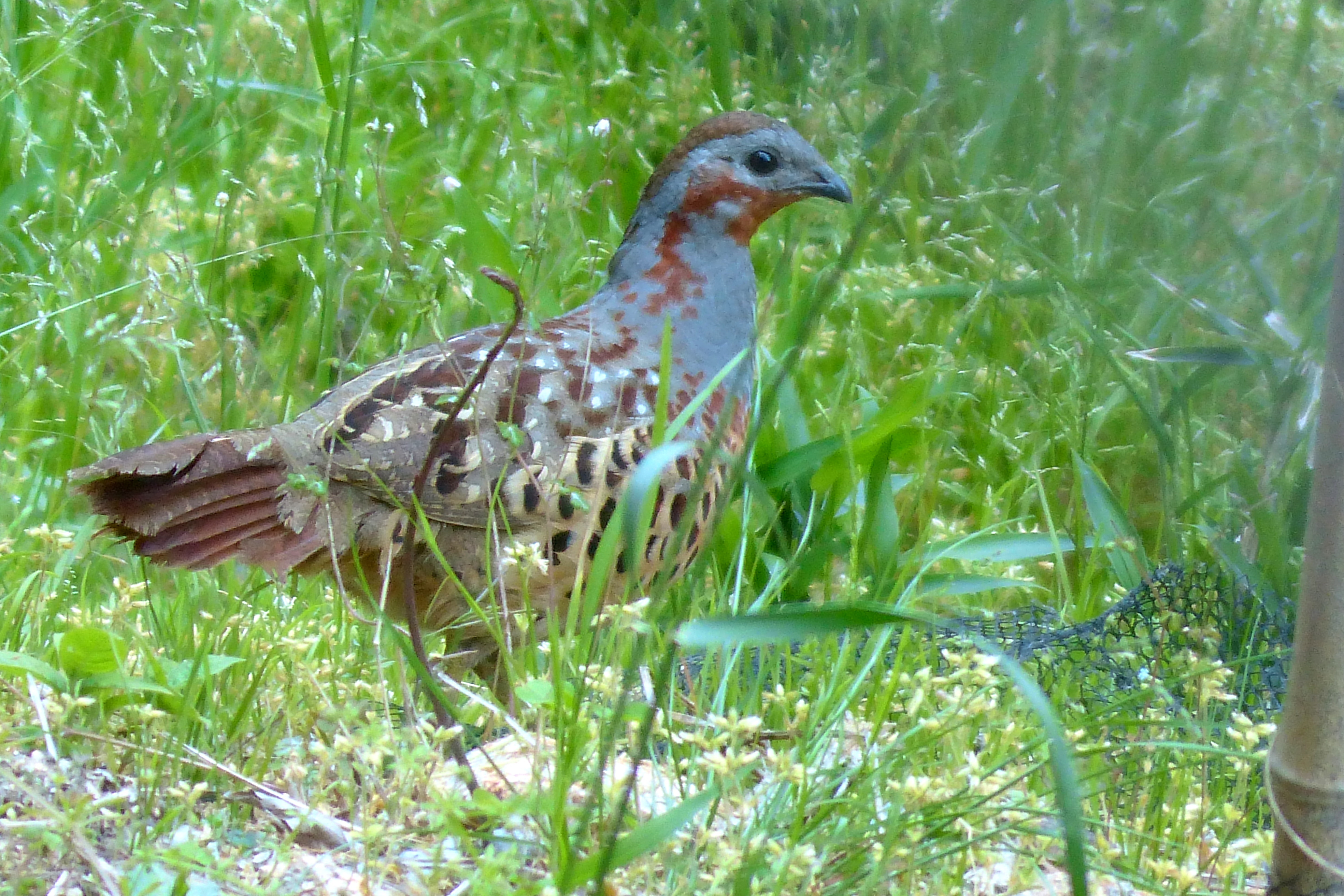 Bambusicola thoracicus, at mountain Kobe Japan.